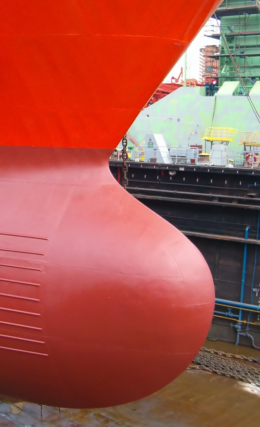 Bow of a ship